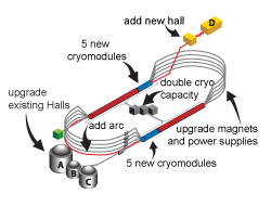 This is a publicly available image at